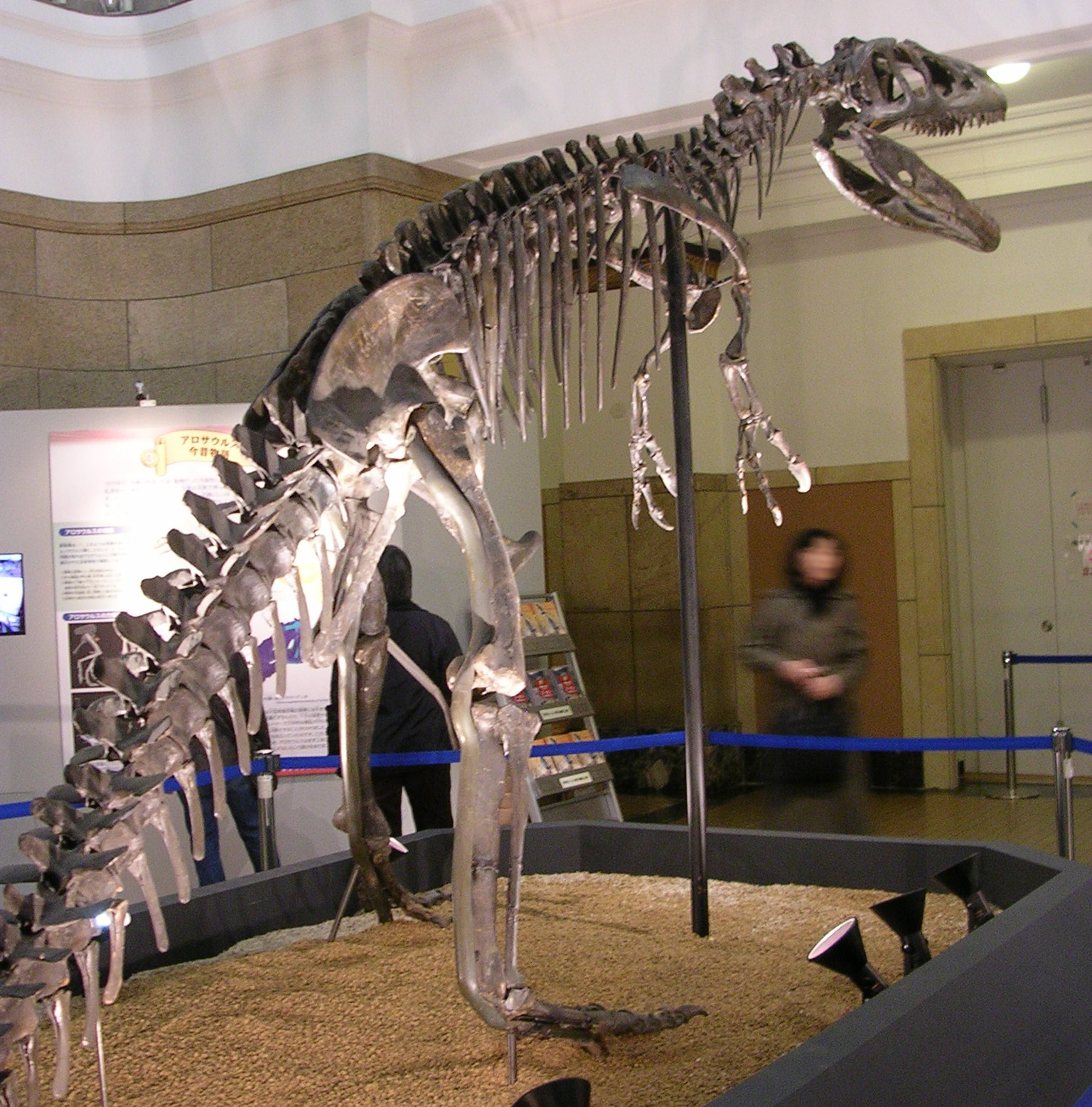 This Allosaurus skeleton, which belongs to the National Science Museum of Japan, was displayed in the hall of the Museum specially between 11 December 2007 and 3 February 2008.